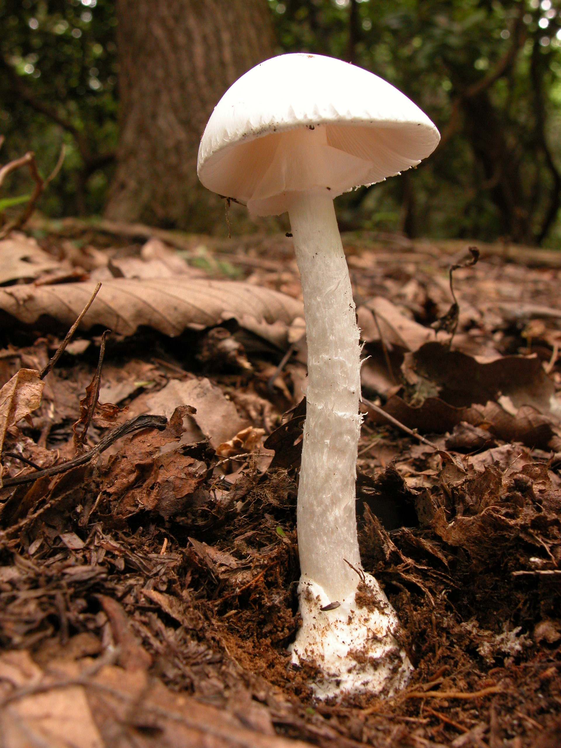 Amanita bisporigera G. F. Atk. Location: Montreat, North Carolina, USA Observation Notes: Found during the 2004 NAMA Foray in North Carolina. The event was actually in Asheville, but it had a day foray to Montreat where a previous NAMA foray had happened.Identified bt sight and comparisons to what was identified in the general display at the foray. Image Notes: Loaded from Amanita/bisporigera/2004-07-17-1.jpg. For more information about this, see the observation page at Mushroom Observer.